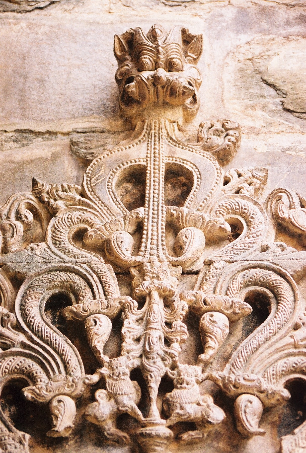 This photograph was taken by me in the Jain temple at Lakkundi in the Gadag district of Karnataka state, India. The temple is a 11th century Western Chalukya empire construction.